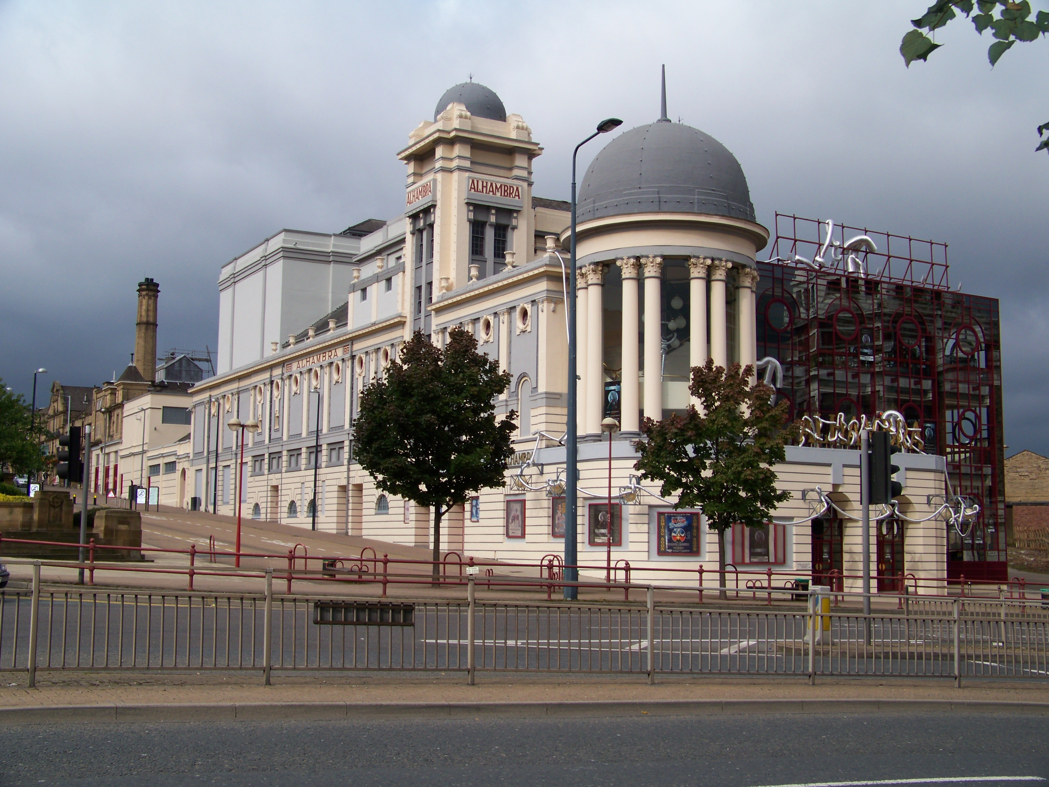 The Bradford Alhambra Theatre in England, built as a music hall in 1914 and refurbished (including the addition of a glass section) in 1986.